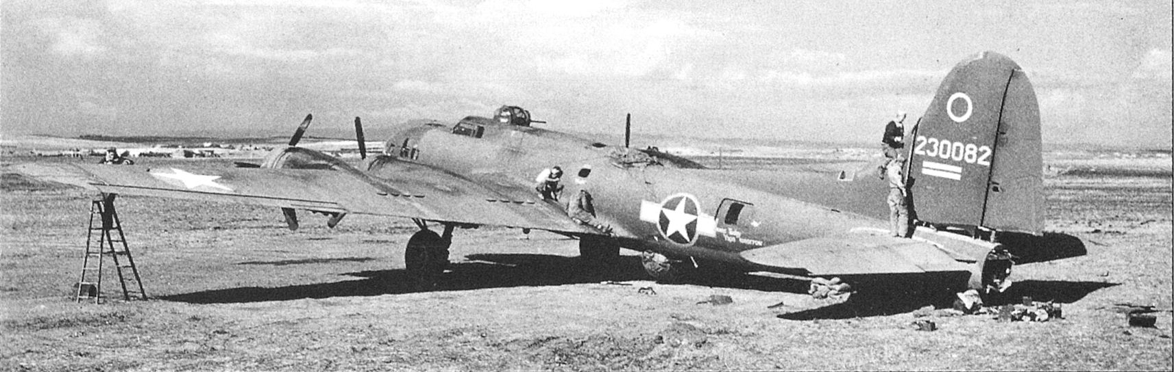 20th Bombardment Squadron Boeing B-17F-85-BO Fortress 42-30082 being serviced at Ain M'lila Airfield, Algeria. Aircraft markings include a red circle around its fuselage "Star and Bars", used only briefly in the fall of 1943. Later assigned to the 419th Bomb Squadron (301st BG), this aircraft survived the war, returning to the United States in September 1945. It was scrapped shortly afterwards.